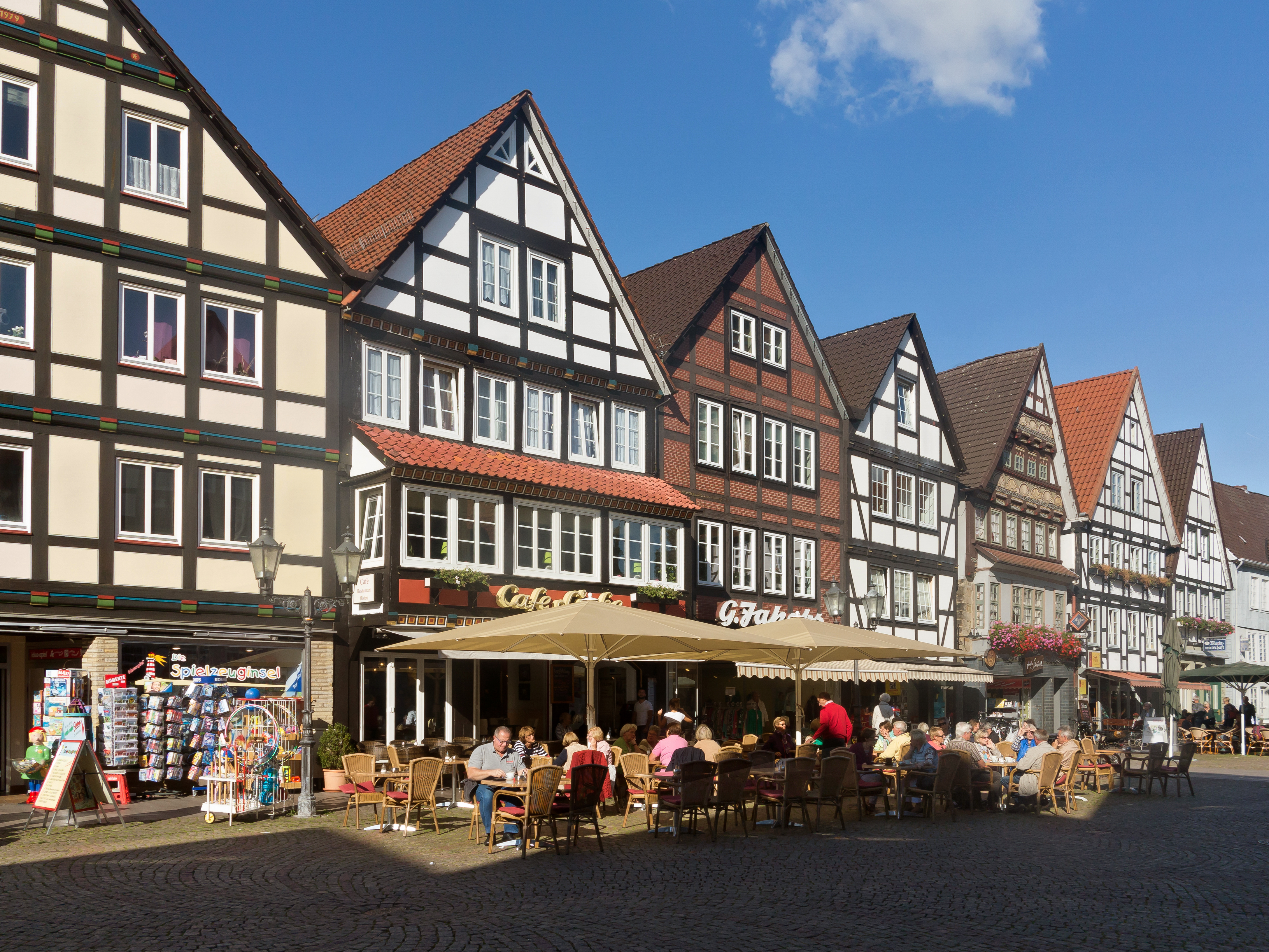 Rinteln, view to a street: der Marktplatz